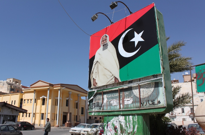 Images of Omar Mukhtar, the hero of Libya's two-decade anti-colonial resistance against Italy, have been erected around Benghazi. He appears on pins, necklaces, car bumpers and ID cards, and a rebel military brigade has been named after him. Mukhtar was hanged in 1931.